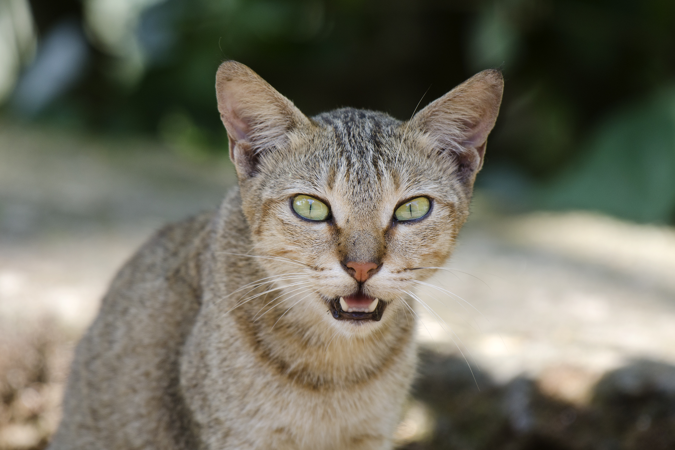 Domestic Cat